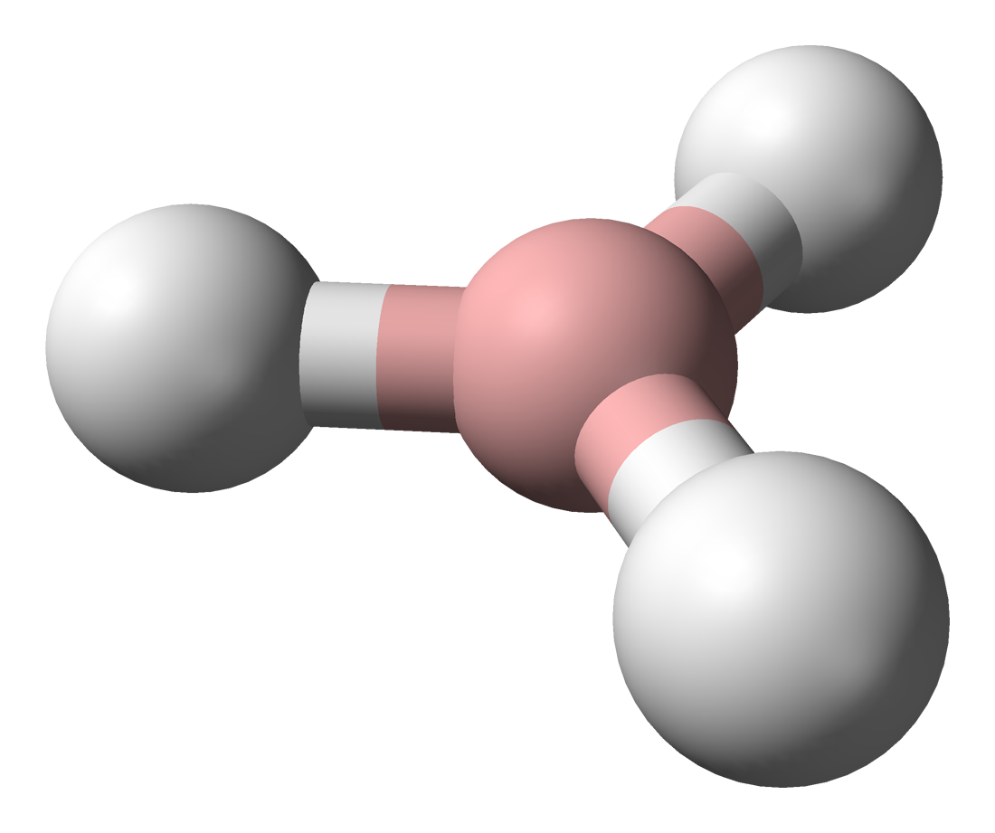 Ball-and-stick model of the borane molecule, BH3